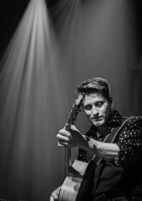 Martyn Mazz performing at the 2016 K-otic reunion in Amsterdam.